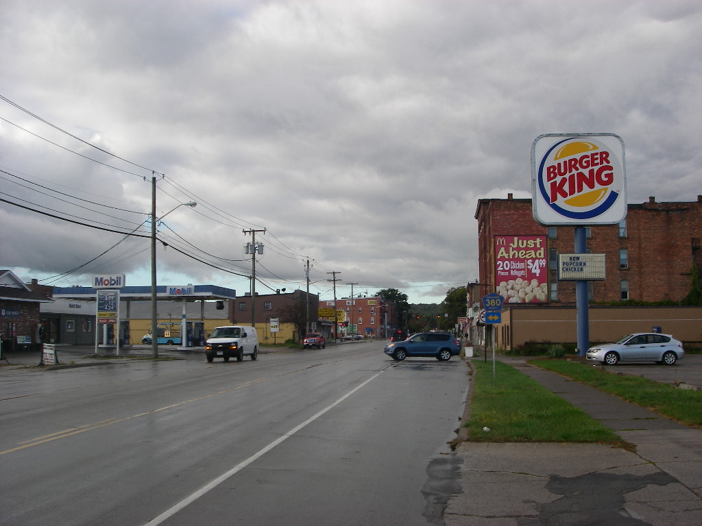 Falconer, NY Main St.